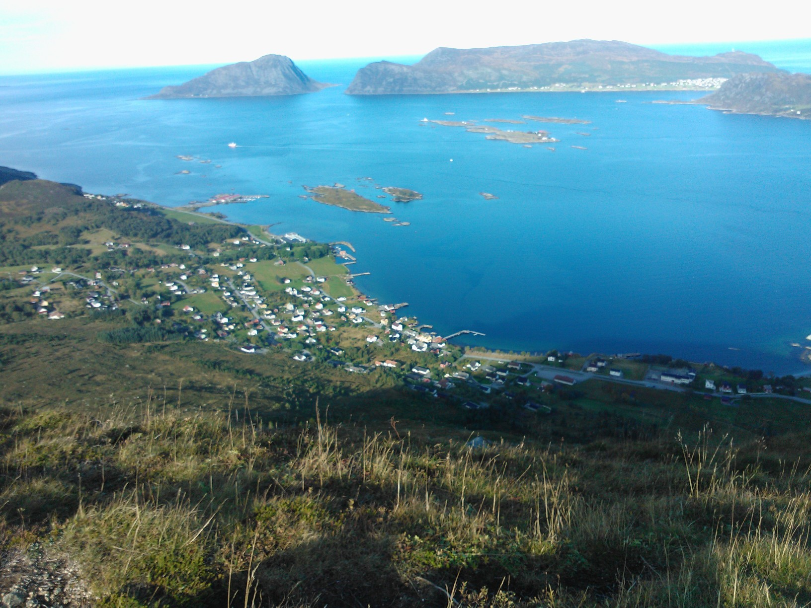 Moltustranda